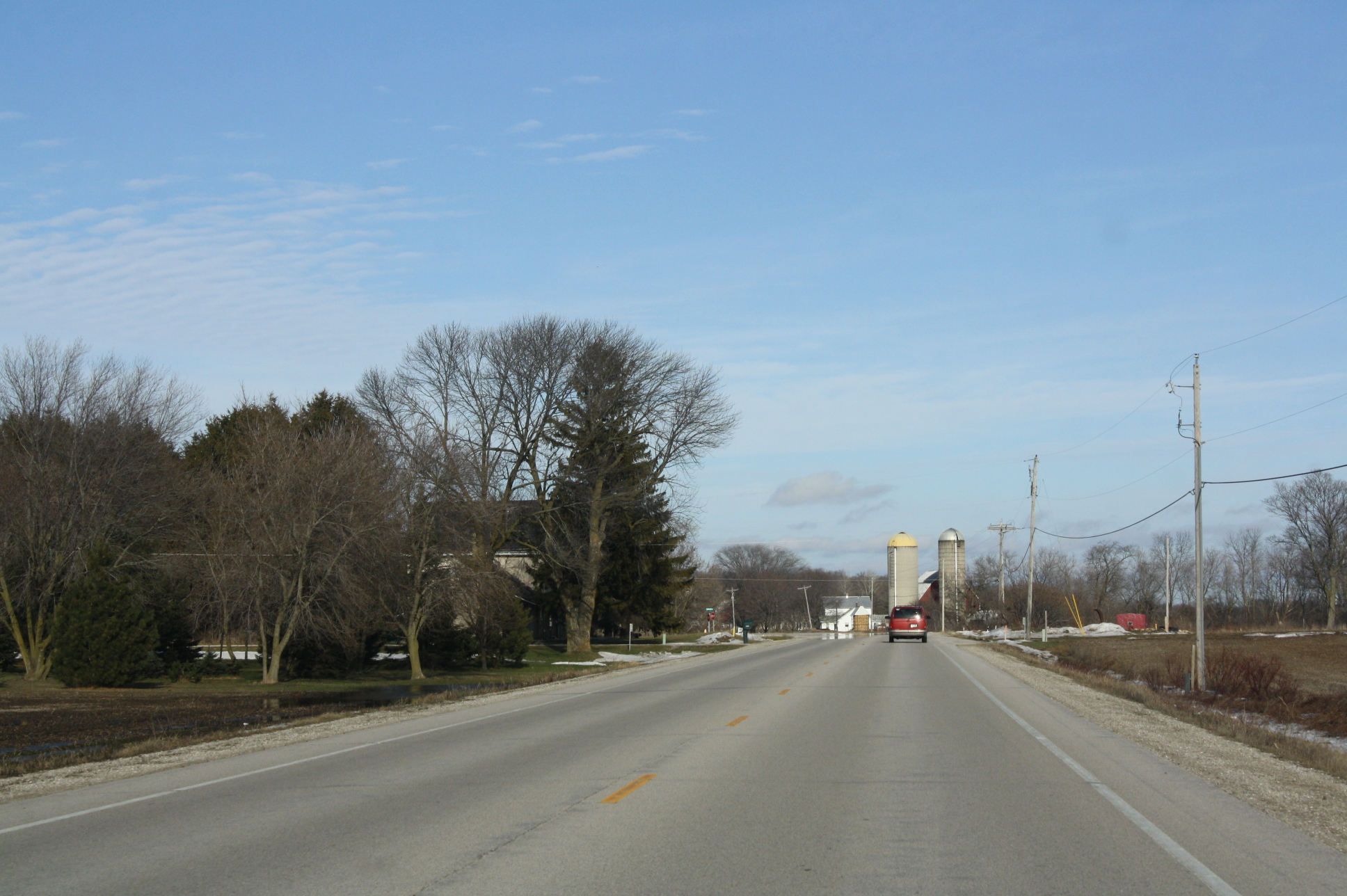 Looking north at the ghost town community of Harrison, Wisconsin from Wisconsin Highway 55. I believe this stretch of the highway originated as a military road between Green Bay and Portage, Wisconsin.